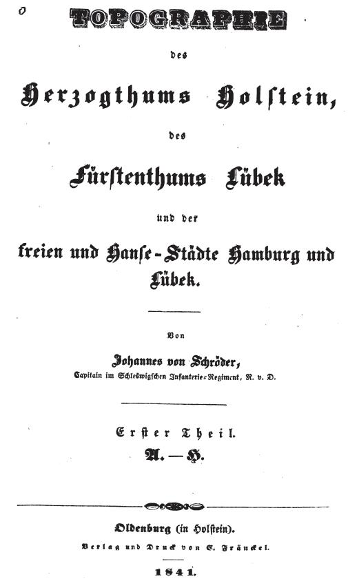 Topograpie of Holstein a part of Germany